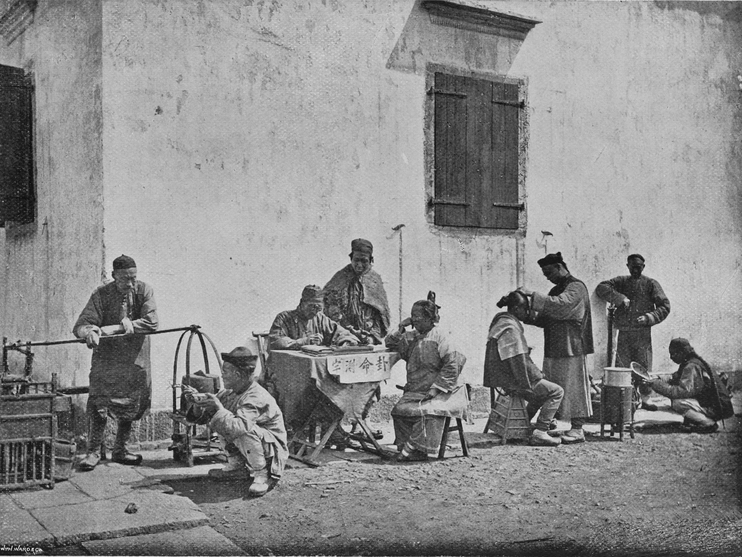 photo from Through China with a camera